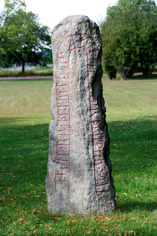 Runestone Sm 121